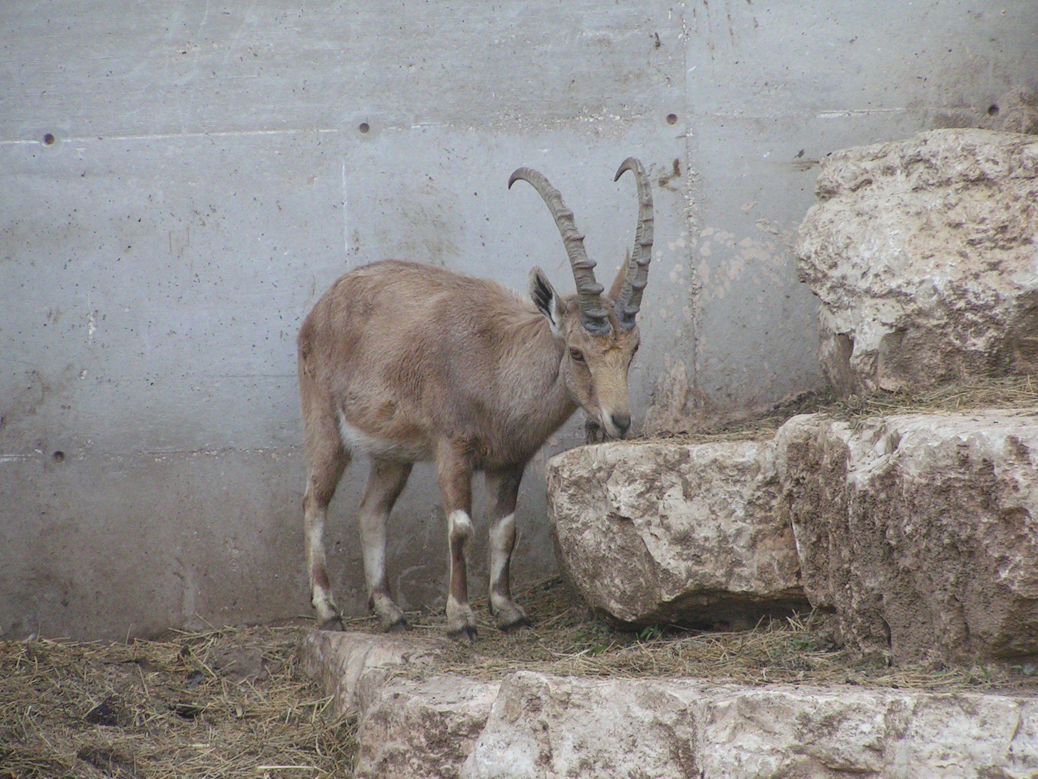 Taken in the Garden for Zoologic Research, Tel Aviv University, Israel.